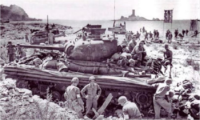 753rd Tank Battalion landing with Camel Force to support the 36th Infantry Division on the beach "du Dramont" - Green Beach - by St. Raphael in August 1944 during Operation Dragoon. In the background are île d'Or and part of Dramont (Var).